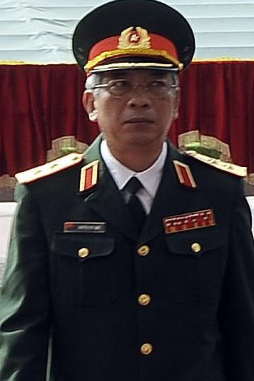 Gen. Nguyen Chi Vinh, Deputy Minister of Defence of Vietnam.